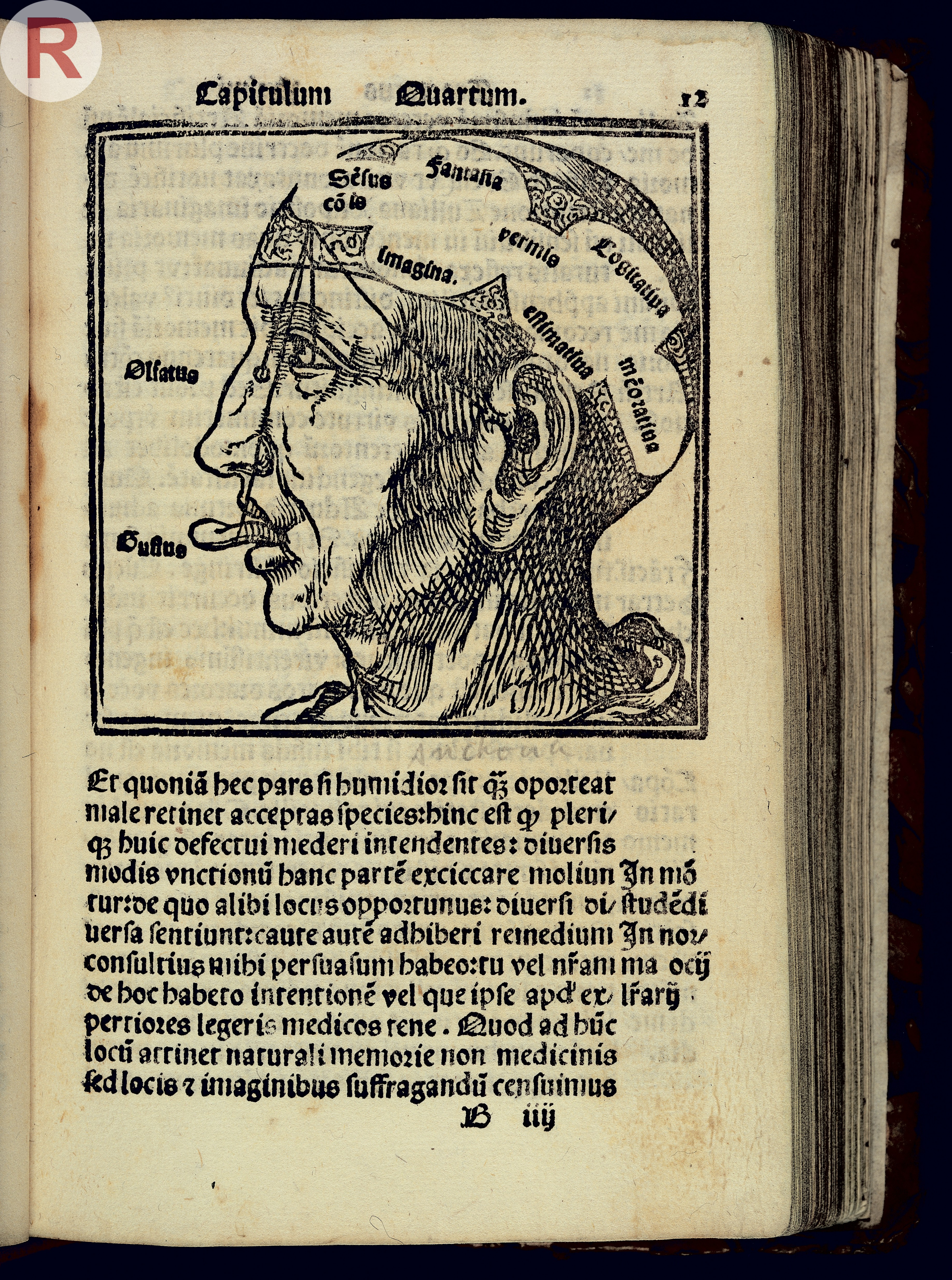 Johann Romberch, Congestorium artificiose memorie...omnium de memoria preceptiones aggregatim complectens. Venice: M. Sessa, 1533. folio 12r. Head with areas annotated. Rare Books Keywords: epb 5543/b; abbey; Memory